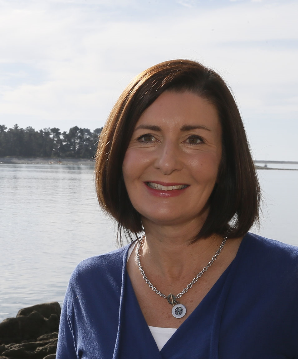 Rachel Reese, taken on Rocks Road, Nelson, NZ.